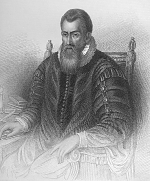 Portrait engraving of John Napier (1550-1617), the inventor of logarithms; based on a 1616 original painting in the University of Edinburgh.